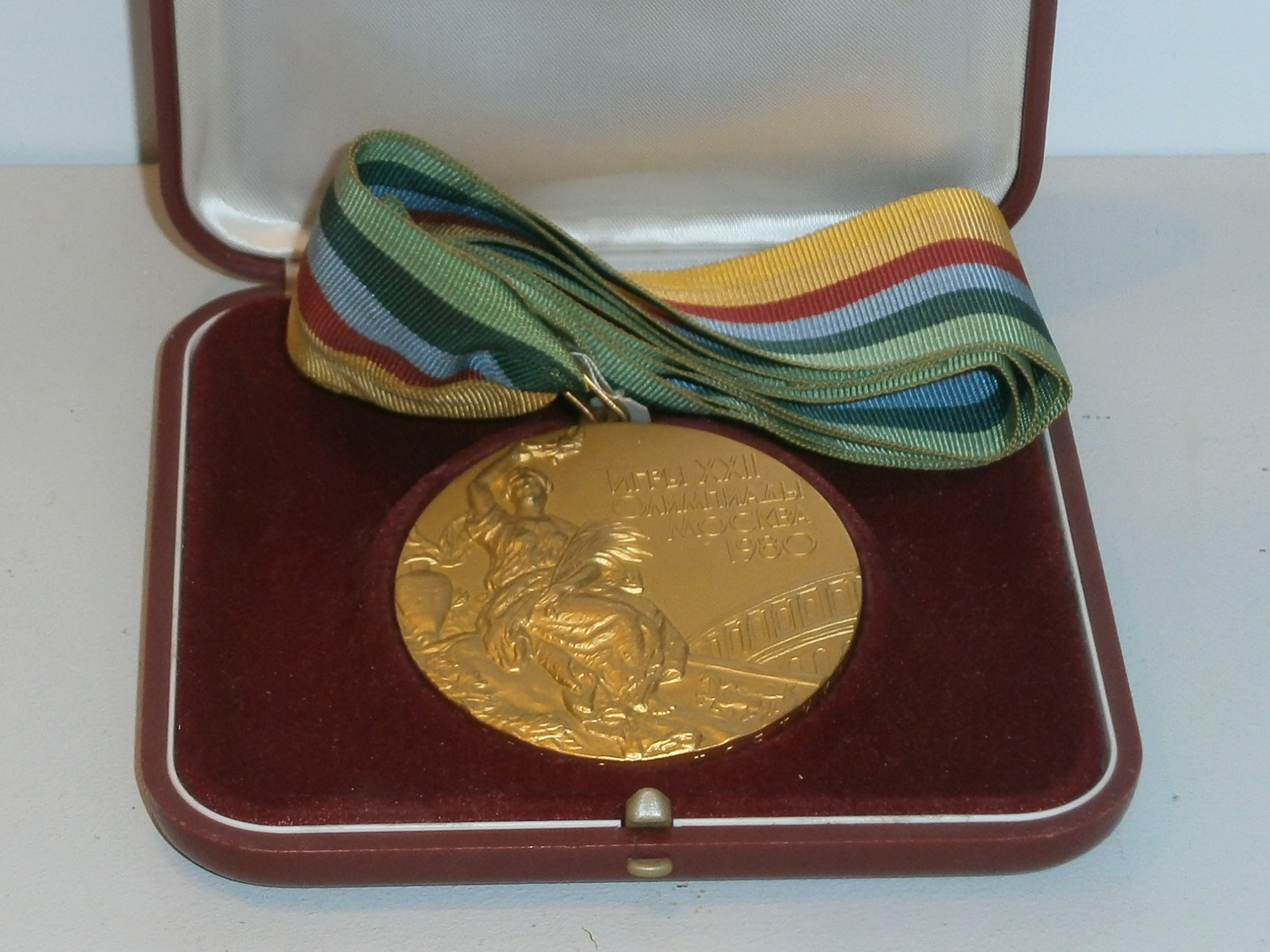 1980 Summer Olympics – Dainis Kūla gold medal